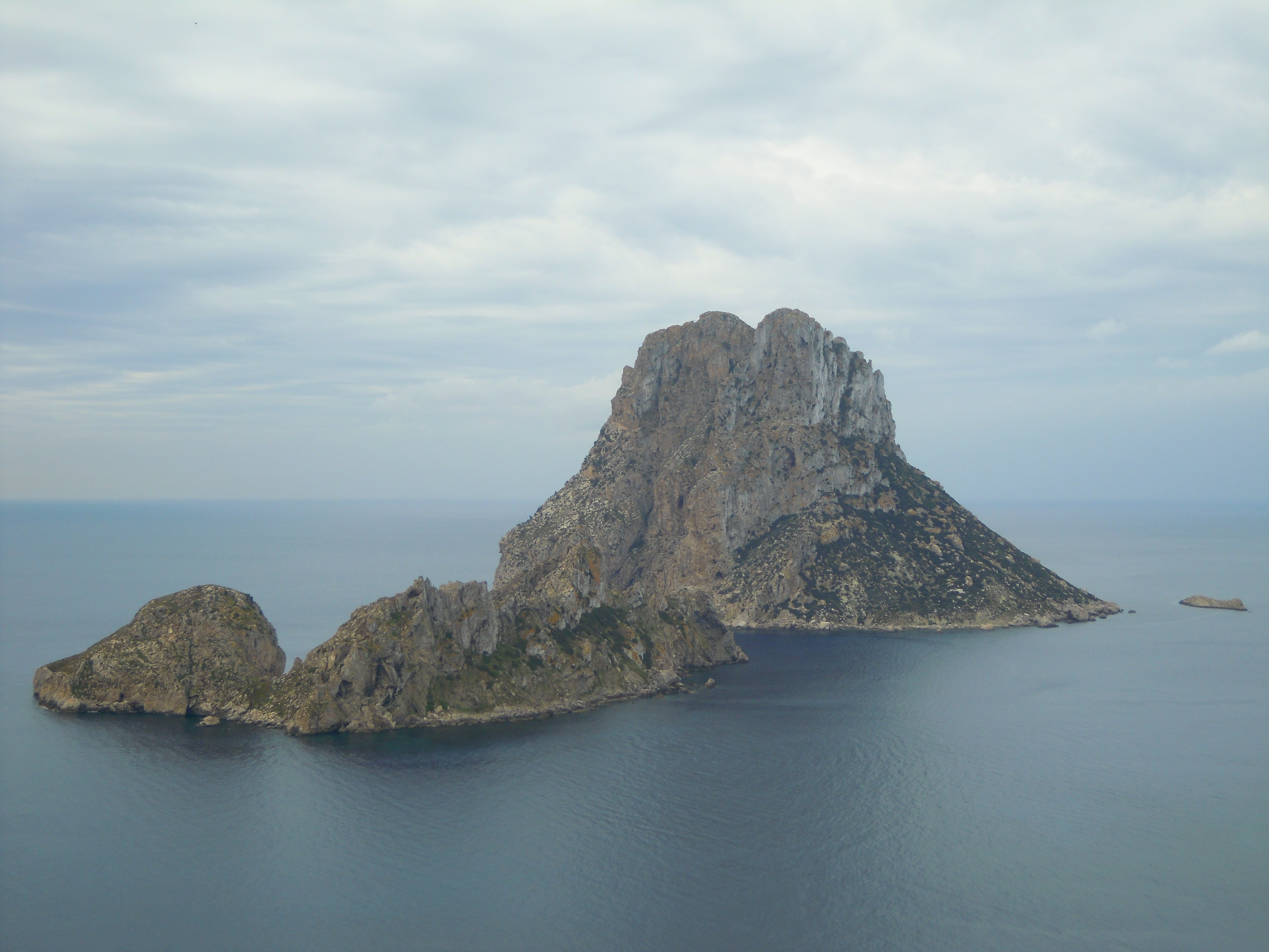 The Island of Es Vedrà off the Spanish island of Ibiza